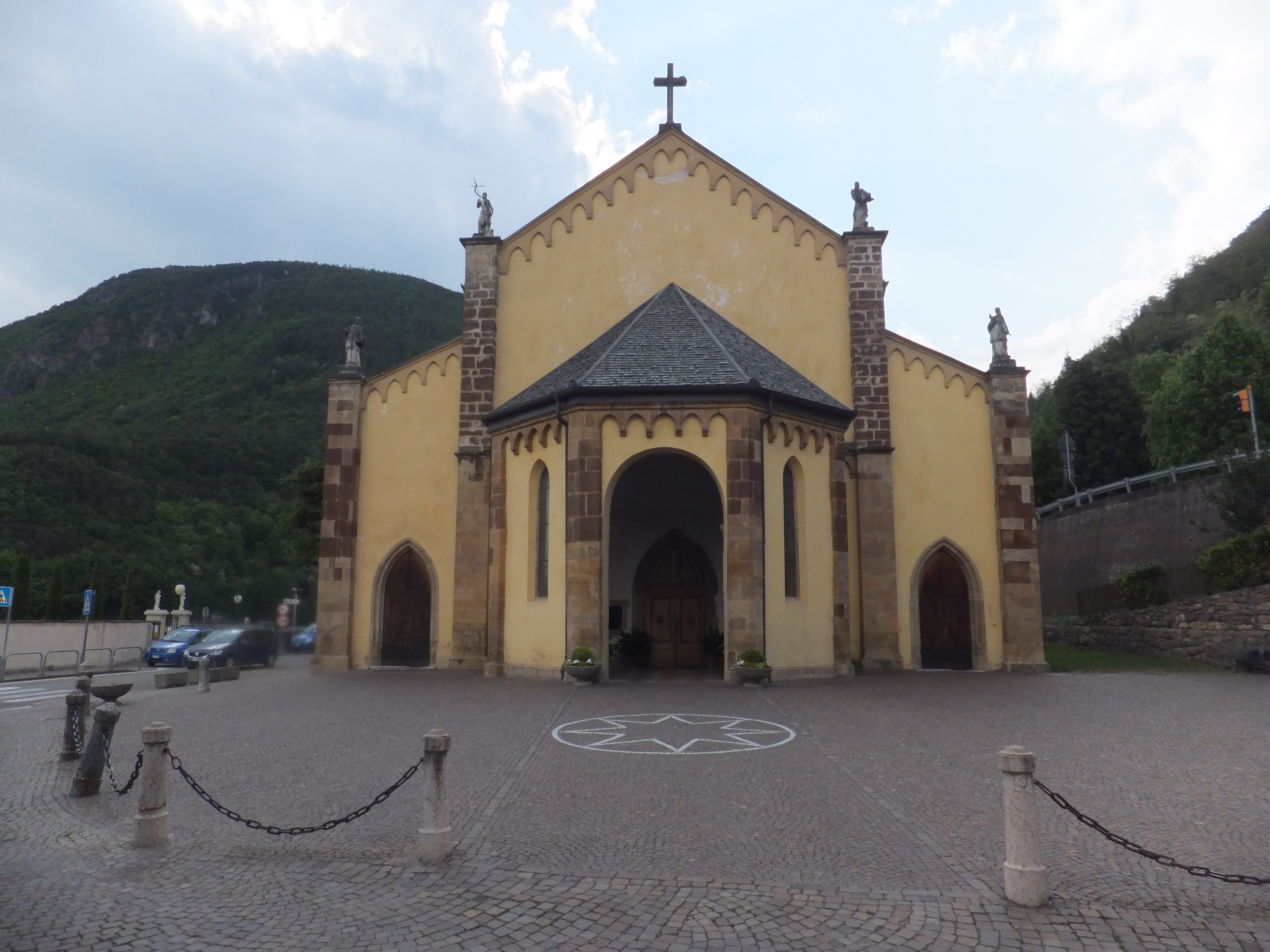 Cembra - Church of the Assumption of Mary